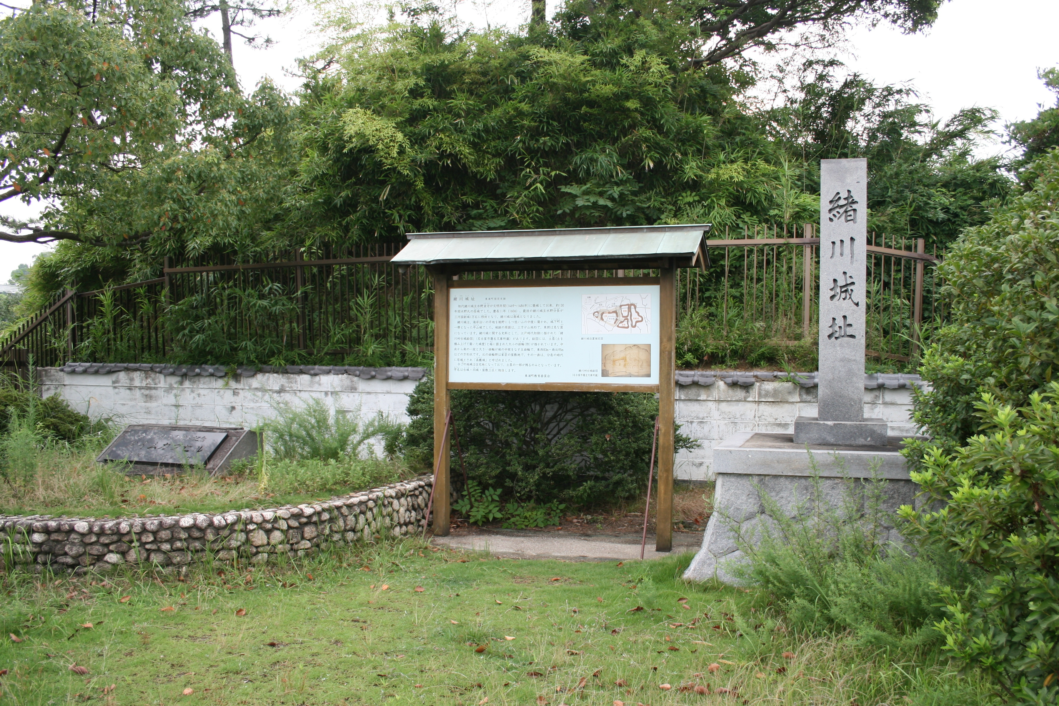 Ogawa Castle, Higashiura, Aichi, Japan